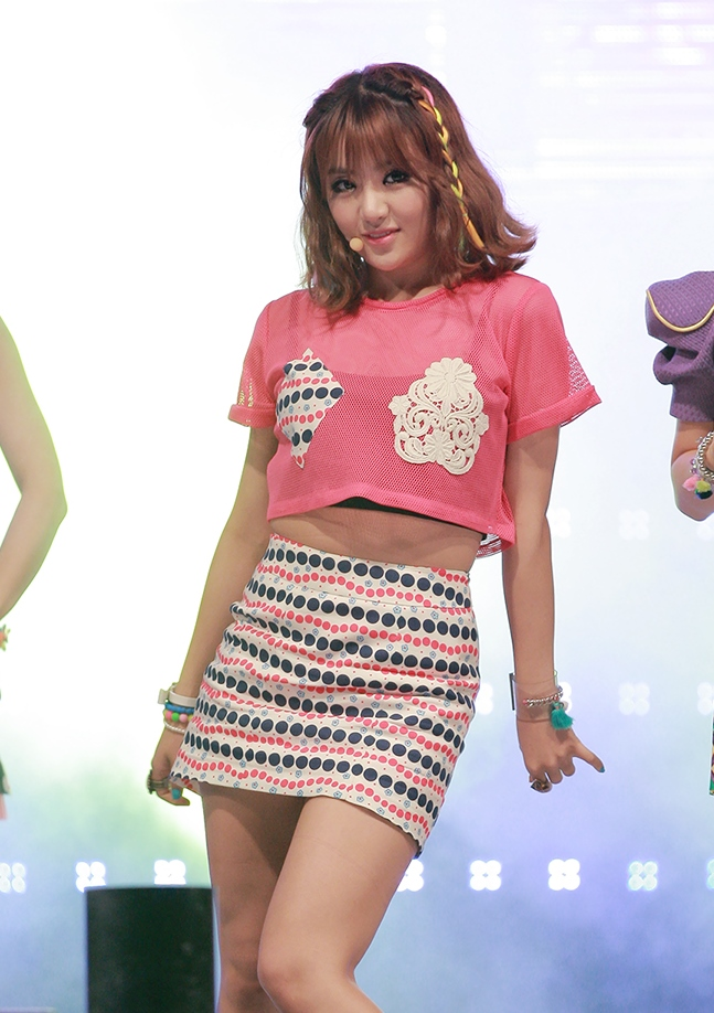 EunB in October 13, 2013.